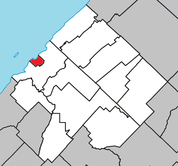 Location of Trois-Pistoles, Quebec within Les Basques Regional County Municipality.